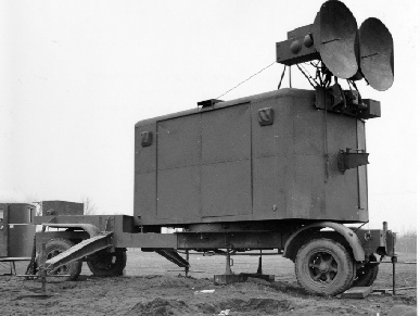 The GL Mk. III was a microwave-frequency Gun Laying radar that fed information directly to a predictor to calculate the angle and fuse delays for an associated battery of anti-aircraft guns. Using radars of this sort reduced the number of shells fire to get a "hit" from about 41,000 in the pre-war era, to about 1000 using the Mk. III. This image shows the Canadian version of the GL Mk. III, the Mk. III(C). It came in two halves, the APF, Accurate Position Finder, shown here, and the ZPI, Zone Position Indicator, not shown. The ZPI was a wide-angle search system that cued the APF operators to the rough location of the target. A generator set, seen on the left, fed power to both radars. Mk. III was designed in the era before it was possible to quickly switch microwave frequencies, and so both the Canadian and British models of the Mk. III both feature two antennas and their associated parabolic reflectors, one used for transmission and the other reception. One easy way to tell the two models apart is the flat edges of the reflectors, seen only on the Canadian version. Mk. III was also designed before there was a way to feed microwaves through cables to a rotating antenna. Instead, the entire operators cabin rotated to track targets, and can be seen to be slightly off-centered in this photo. The antennas "nodded" up and down to track in elevation, and for transport the entire assembly could be rotated forward and locked into the bracket seen projecting from the front of the cabin. Both of these limitations were soon addressed, switching through the use of the soft Sutton tube and rotation through the move to waveguides instead of coaxial cables, leading to the dramatically superior US SCR-584. The -584 became widely used starting in 1944, and the Mk. III's were generally relegated to secondary roles.